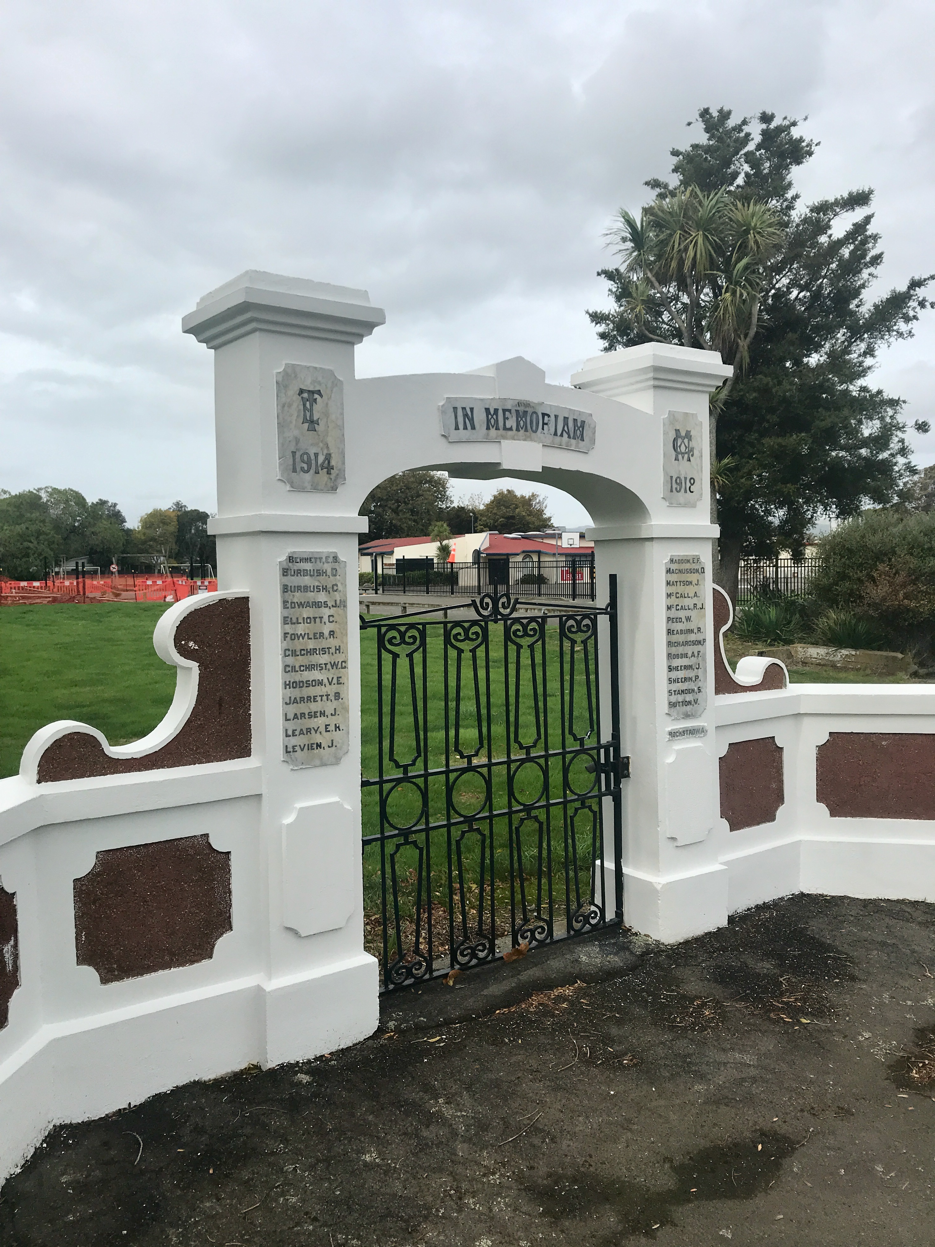 Memorial arch at Terrace End School, Ruhine Street, Palmerston North. This was unveiled in 1924, and led to the baths which were erected to 'the memory of the Terrace End School Old Boys who rendered gallant service to the Empire during the Great War 1914 – 1918'. The pool has now been demolished, but the gates remain as a memorial.